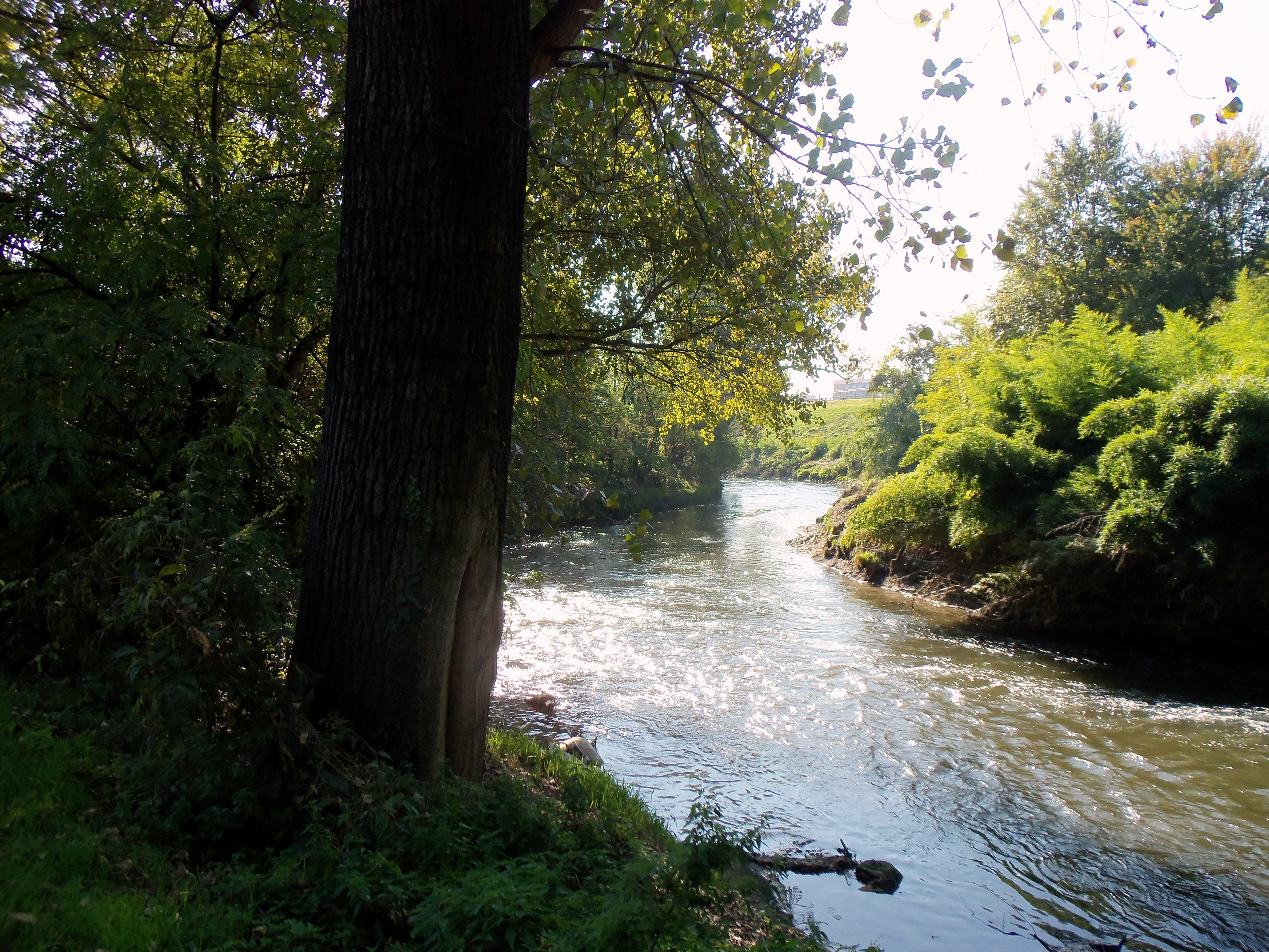 Milano, Lambro river in Forlanini park